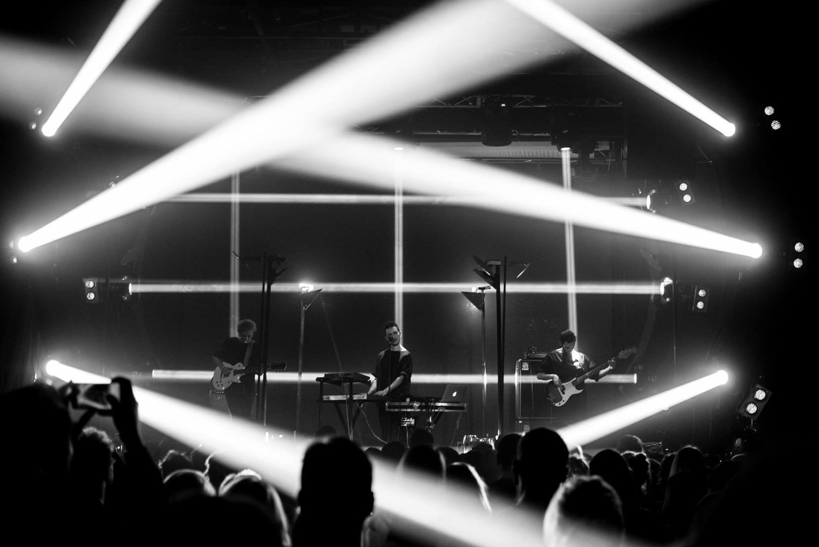 Cepasa White Noises Show in Kiev